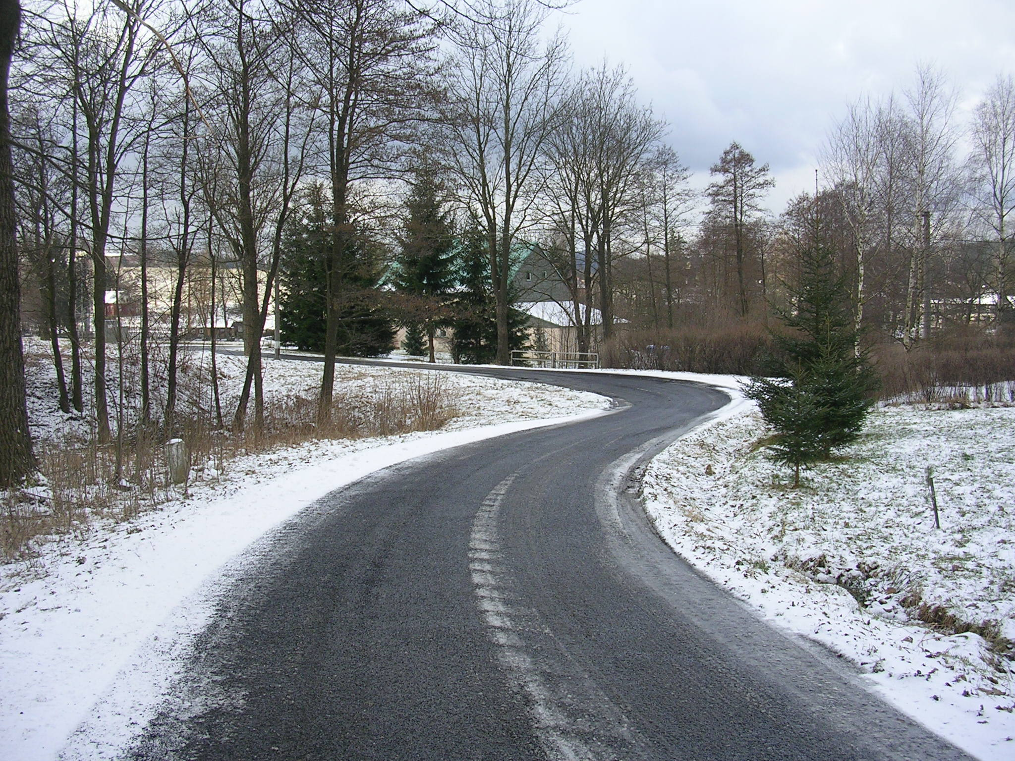 Doubice, Ústí nad Labem Region, the Czech Republic.